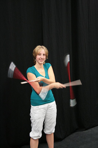 During the Dutch Devilstick Championships. By Nikki Sneep-Snijders from Holland.